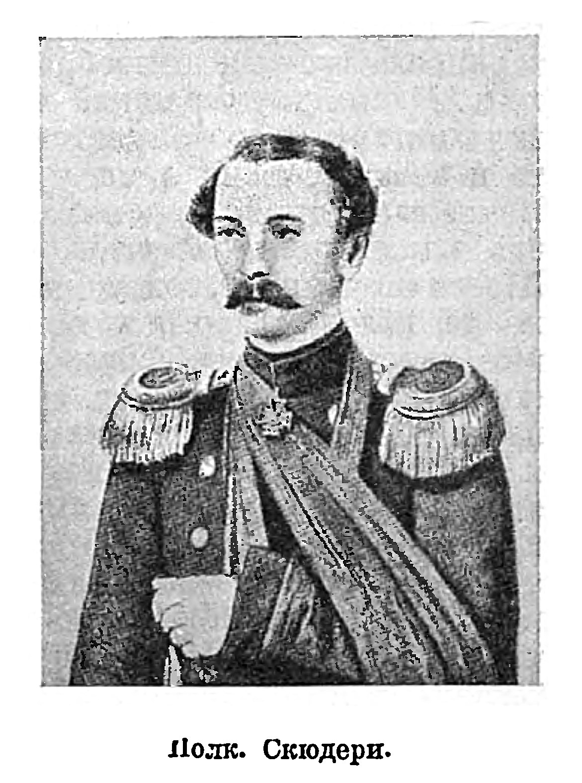 Colonel of the Russian Empire A. P. Scudery.